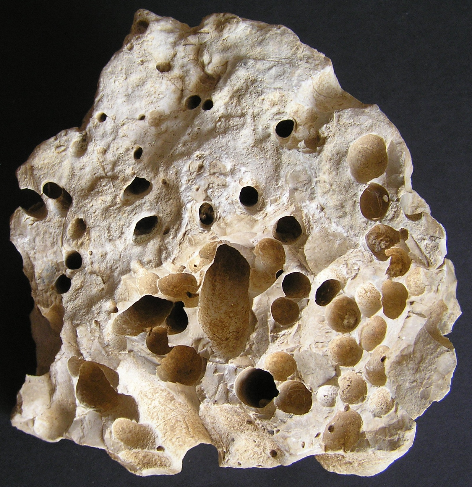 Bohrmuschelkalk